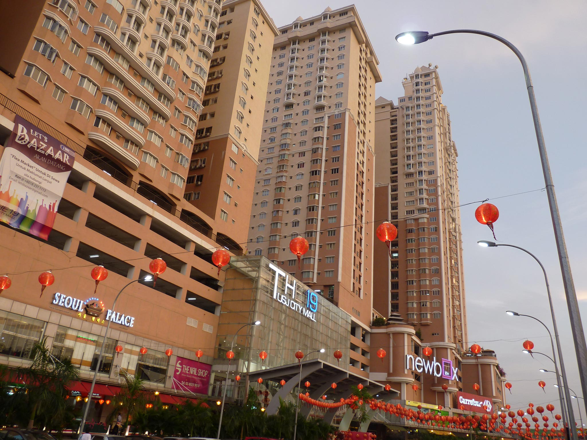 The 19 USJ City Mall decorated for Chinese New Year 2011.